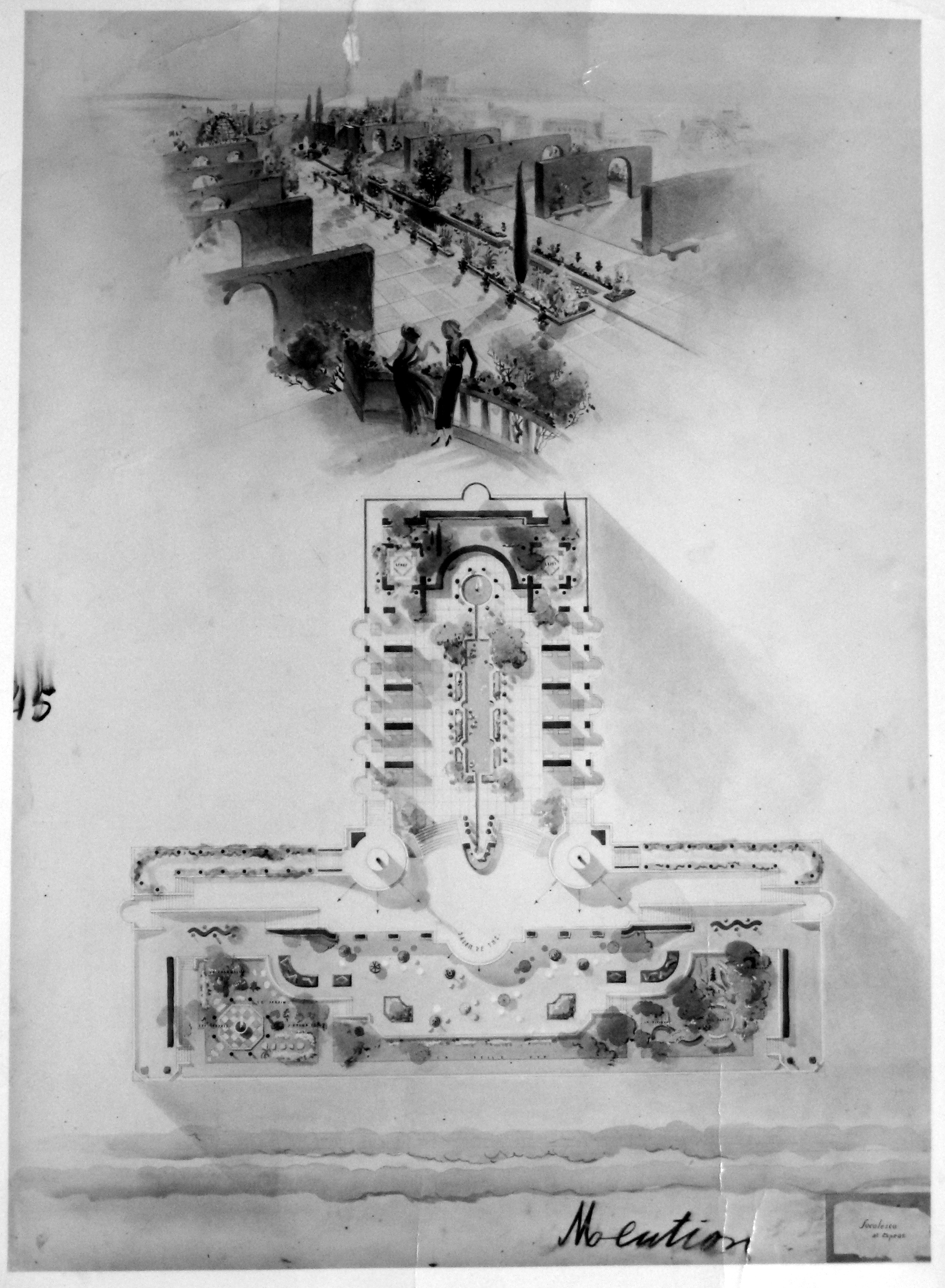 Winning project (first mention) in the competition Delaon 1938 - Jardins - Architect Toma Barbu Socolescu (1909-1977)